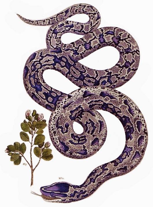 Northern African Rock Python (Python sebae). Illustration from a famous 18th-century work of reference, edited by Albertus Seba, a Dutch pharmacist and collector of zoological and other natural subjects.